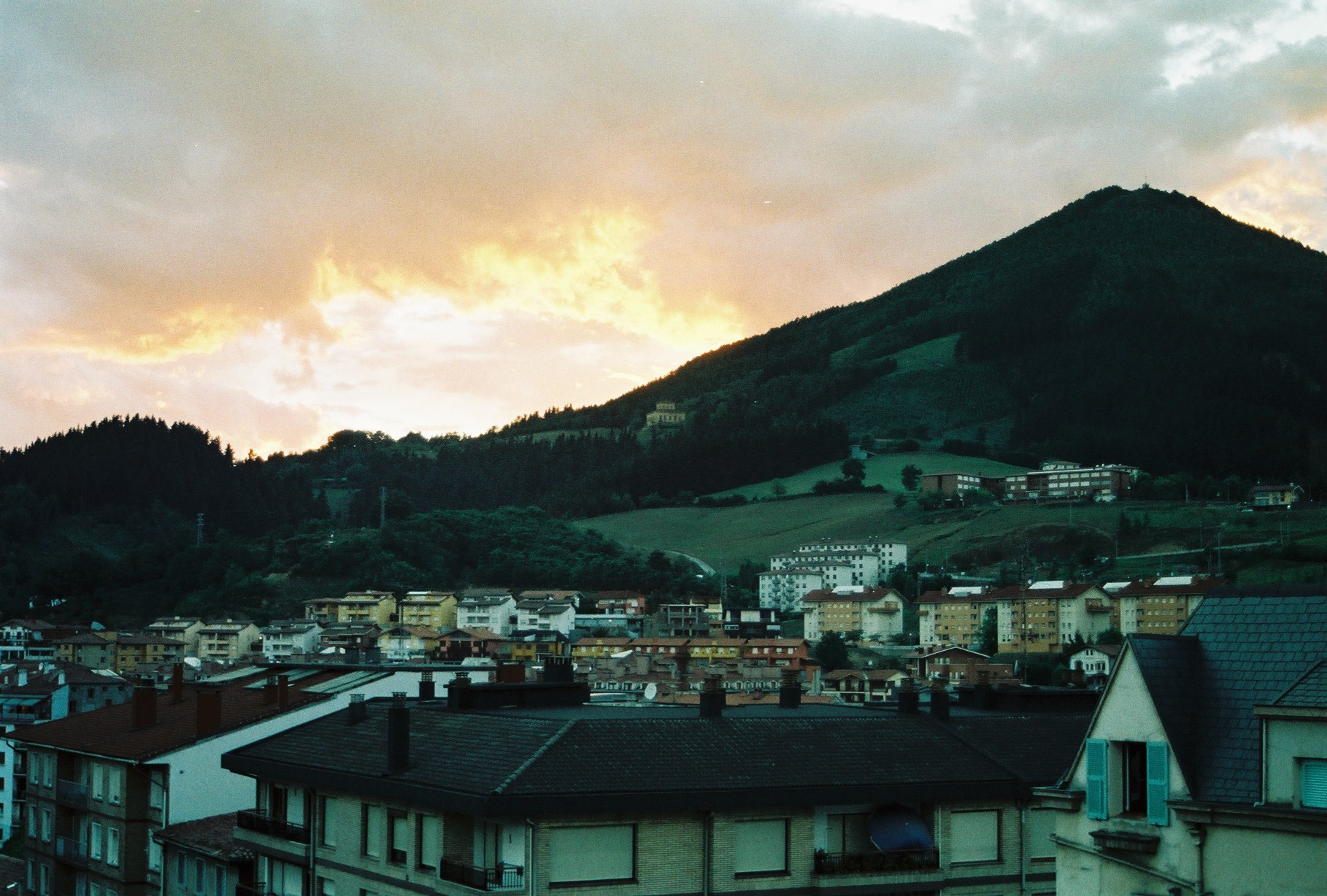 Zumarraga and Urretxu municipalities, in Gipuzkoa